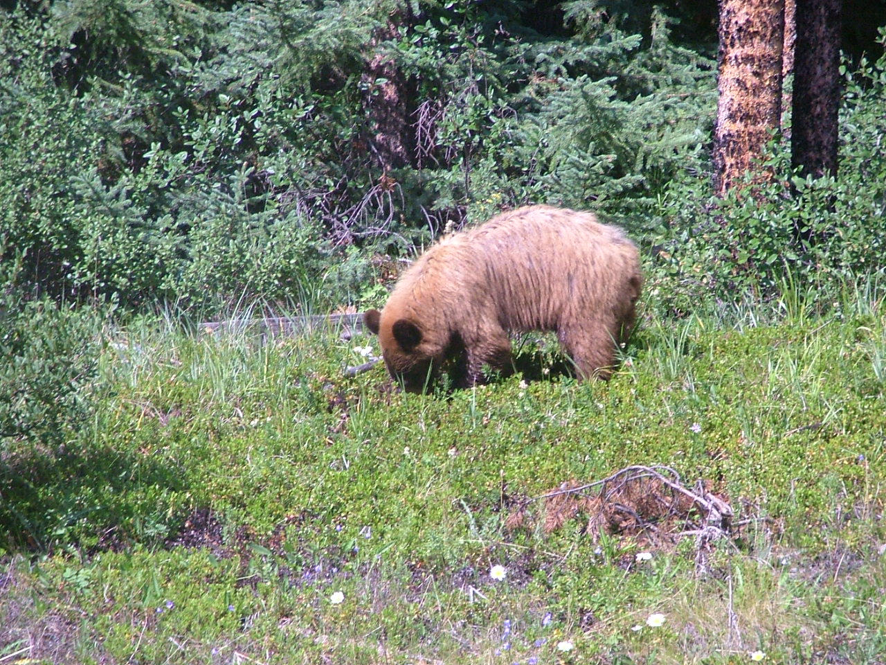 Picture of a small bear taken during a visit of Banff National Park on July 26th, 2009 (the date in the camera is not updated following change of battery). Location: between Johnston Falls and Banff.